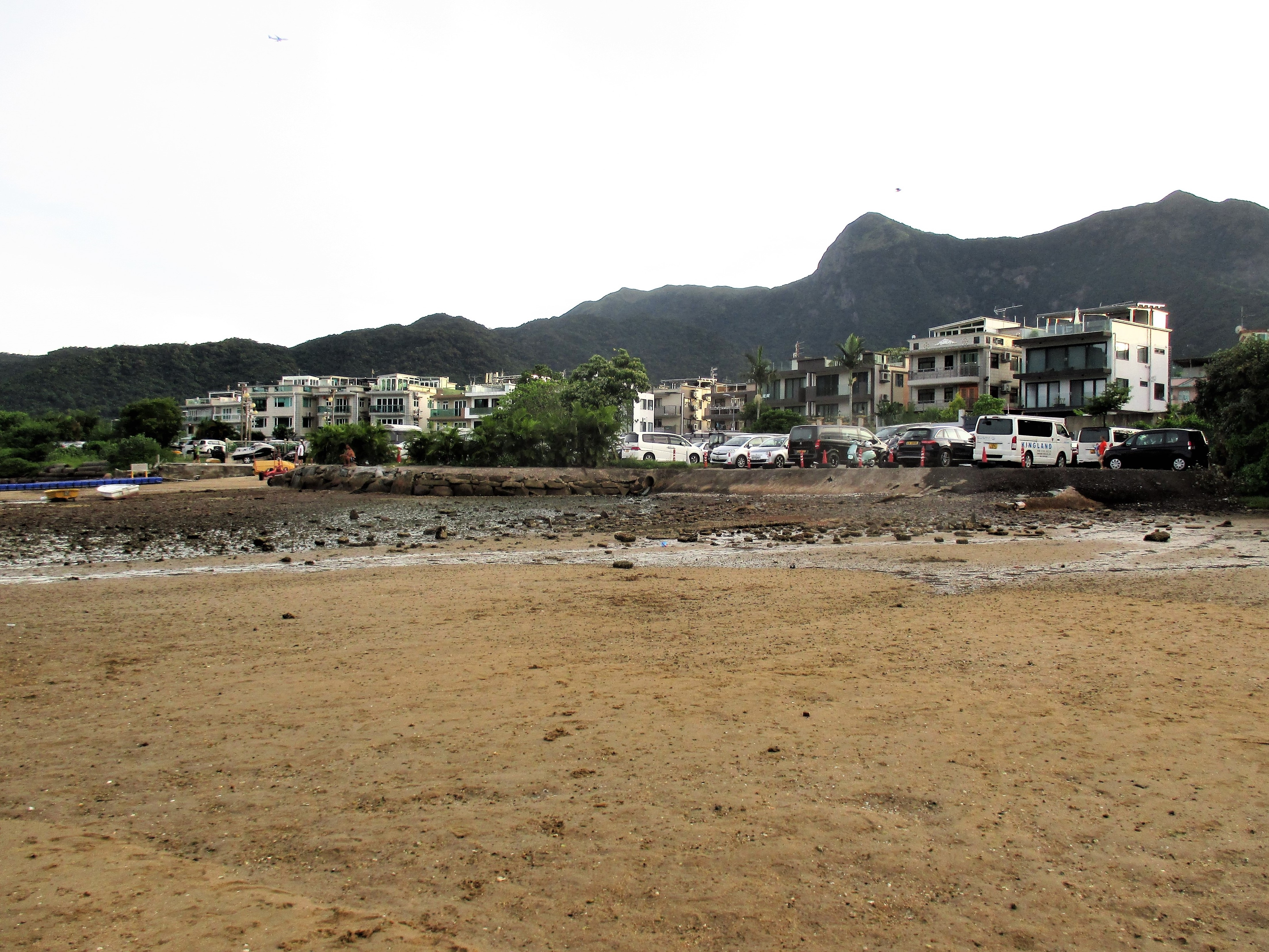 Tseng Tau